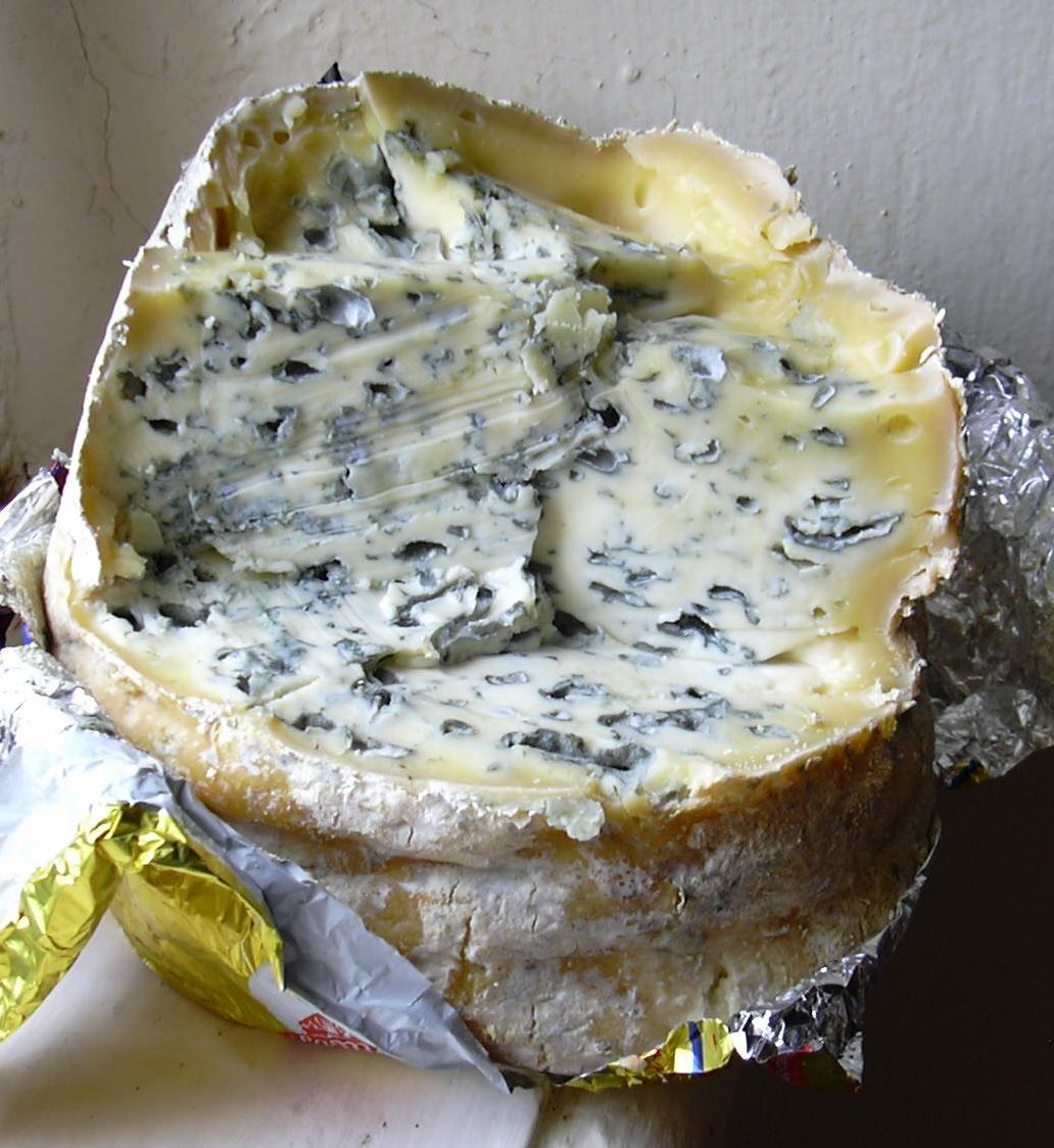 Fourme d'Ambert (French cheese, AOC, from region Auvergne)